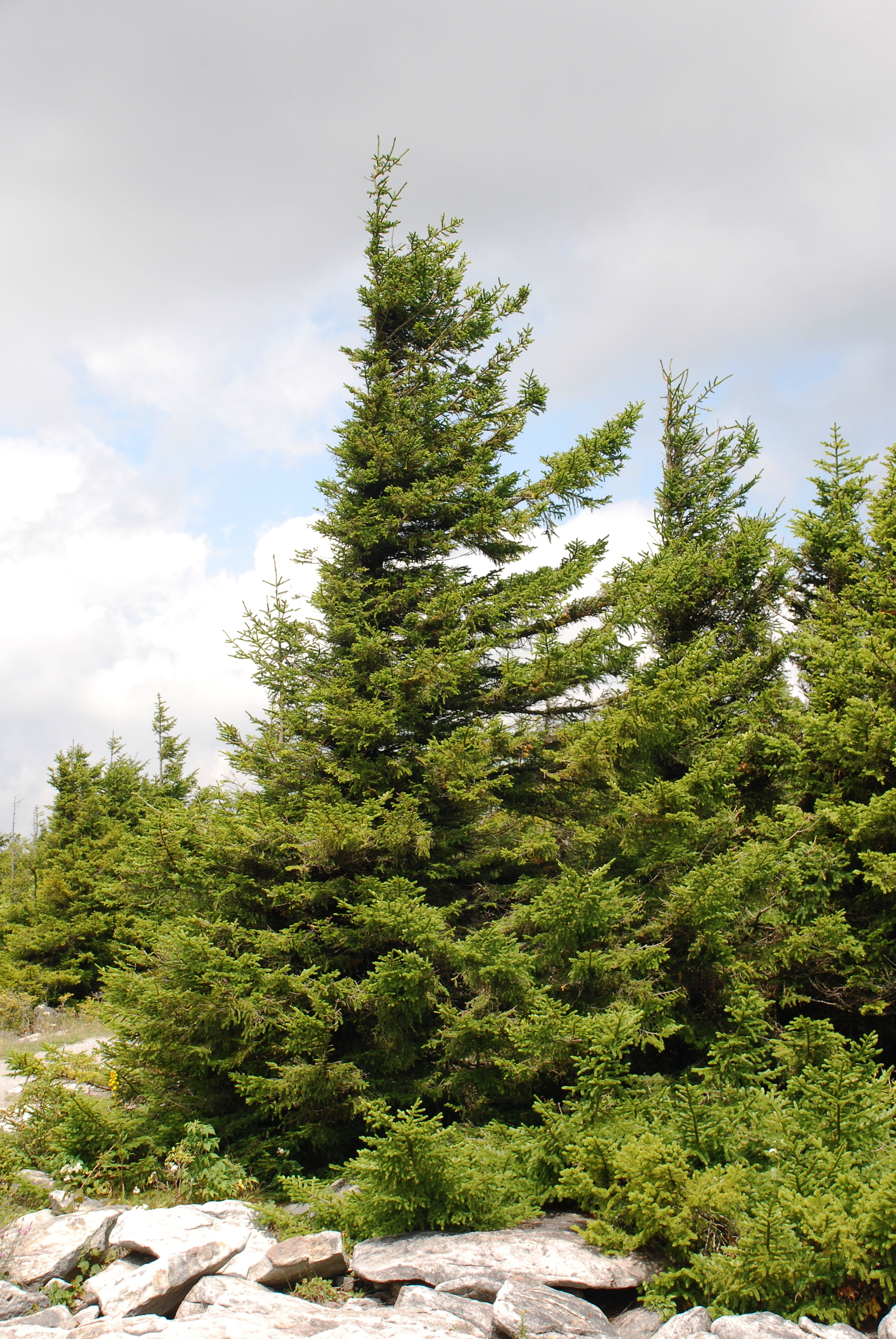 Picea rubens (Red Spruce) on top of Spruce Knob mountain in West Virginia, USA